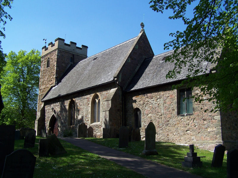 St James the Great, Birstall parish church taken by kev747